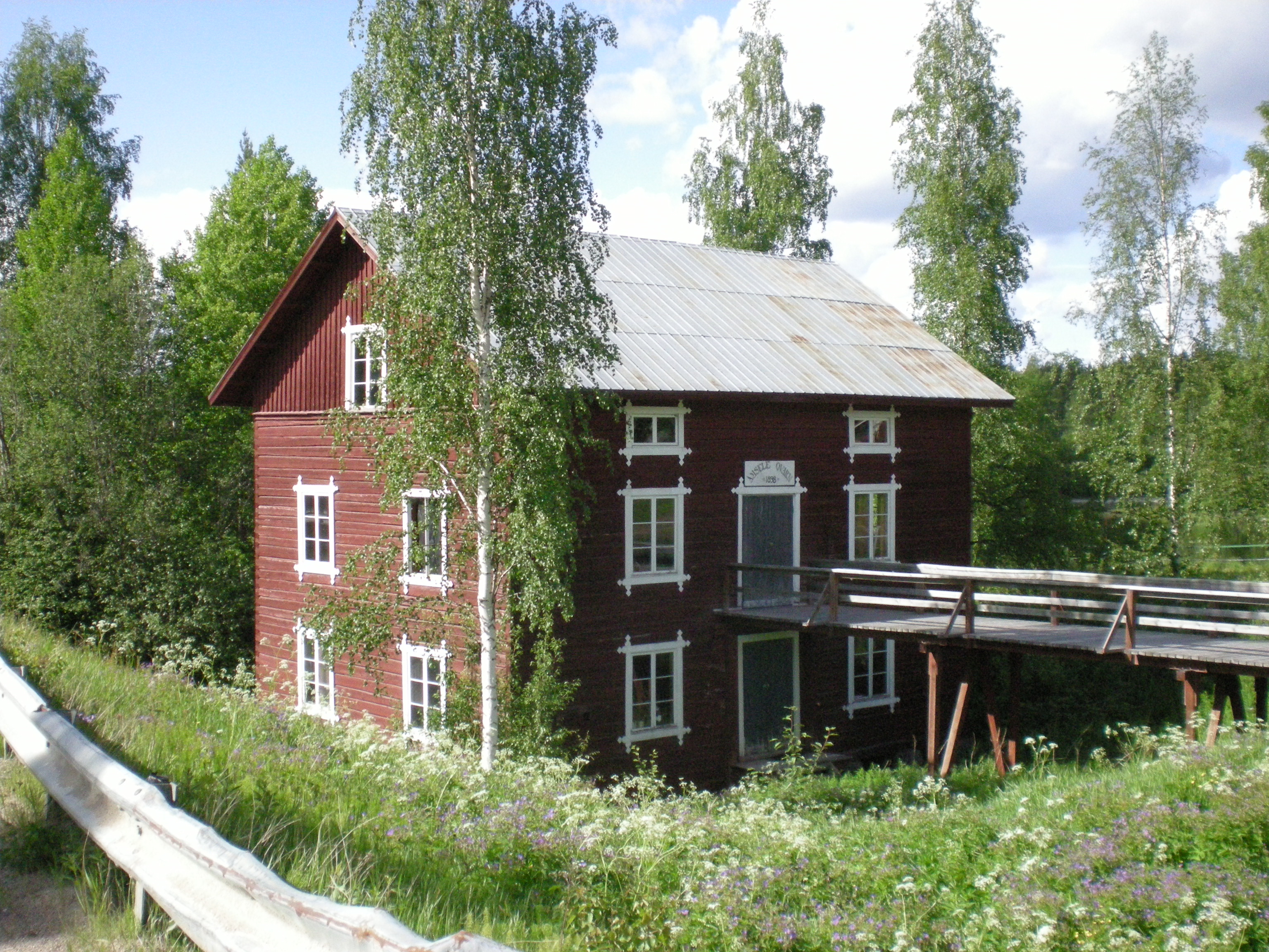 The mill in Åmsele, Sweden.